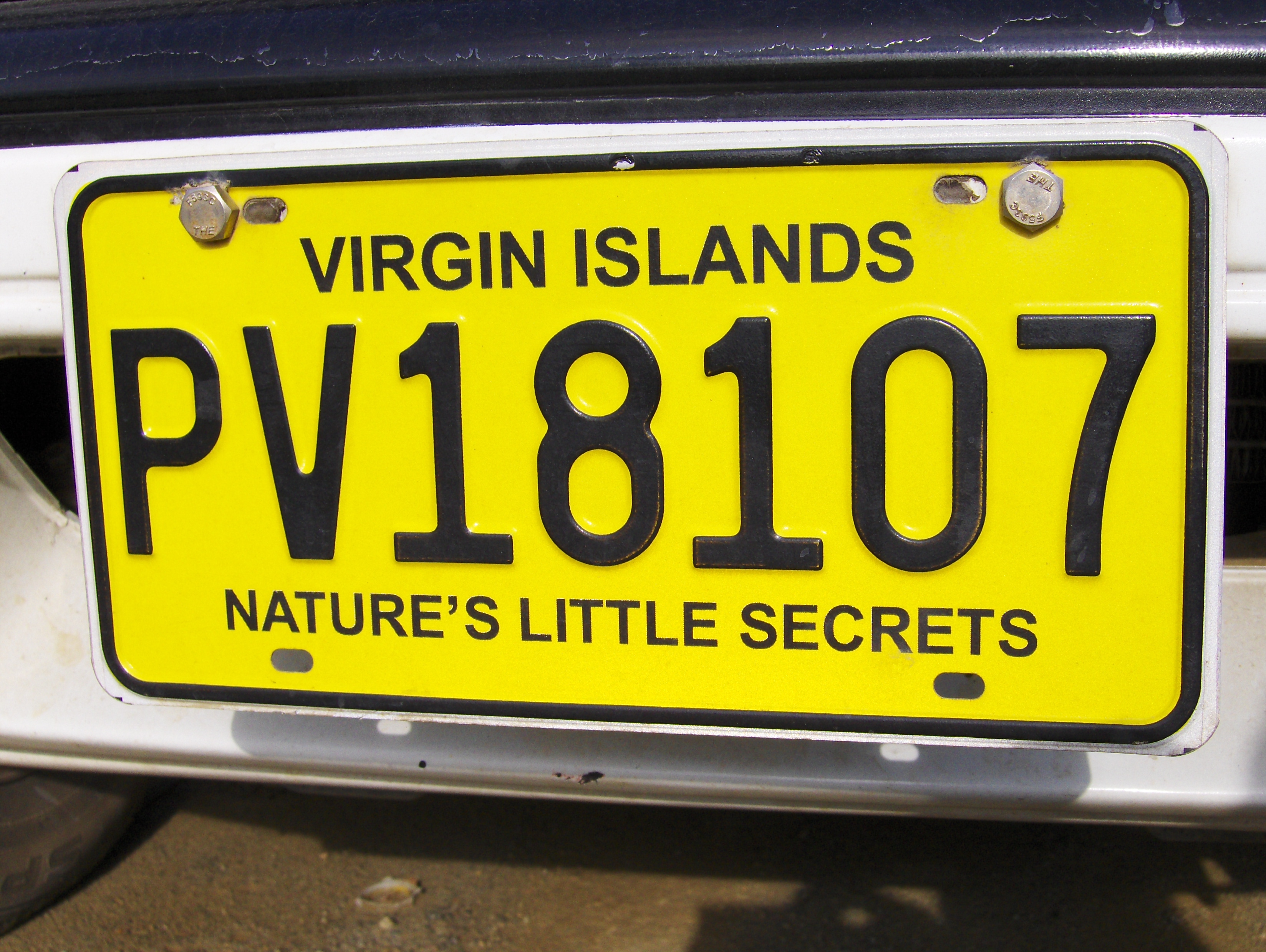 A British Virgin Islands license place